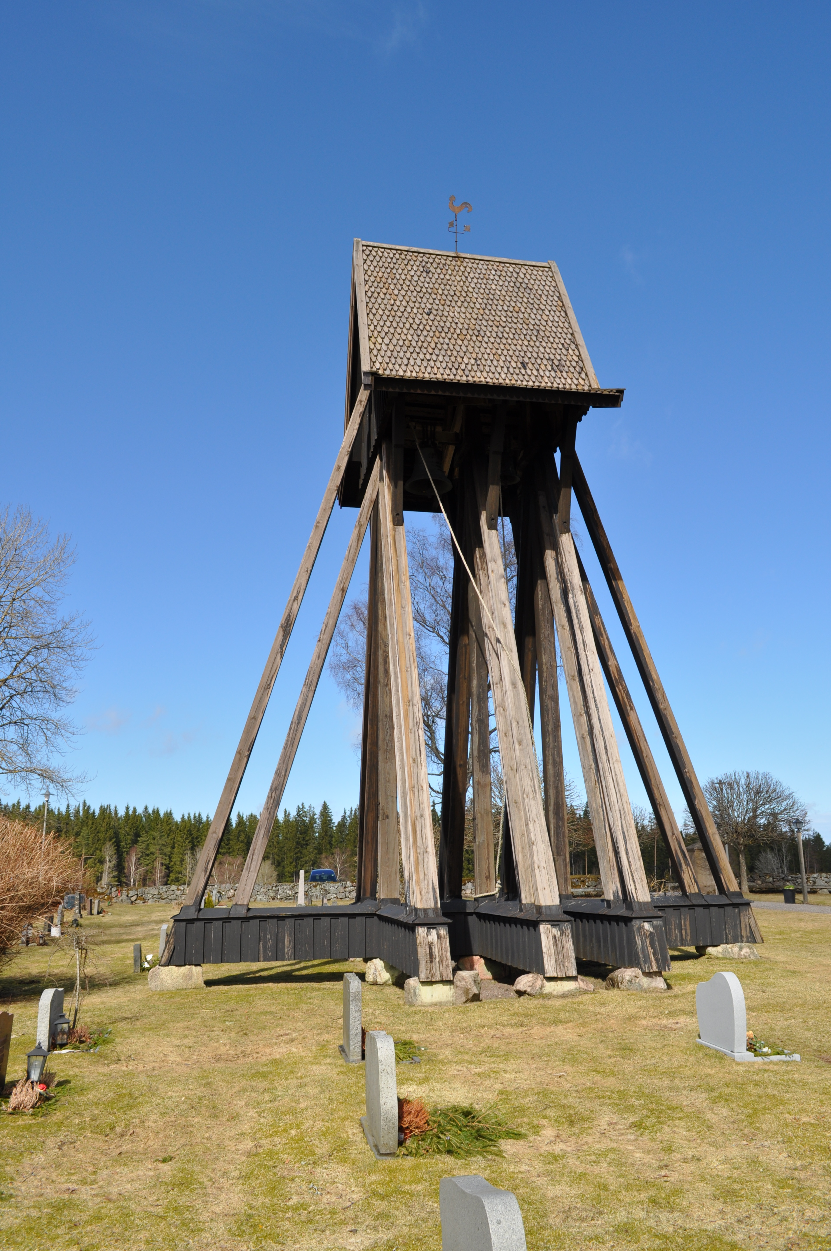 Lannaskede old church